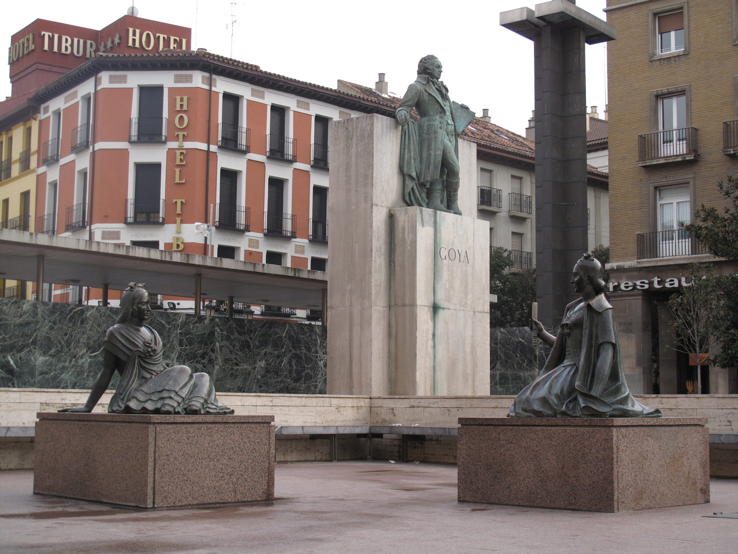 The monument of Francisco de Goya in Zaragoza, Spain